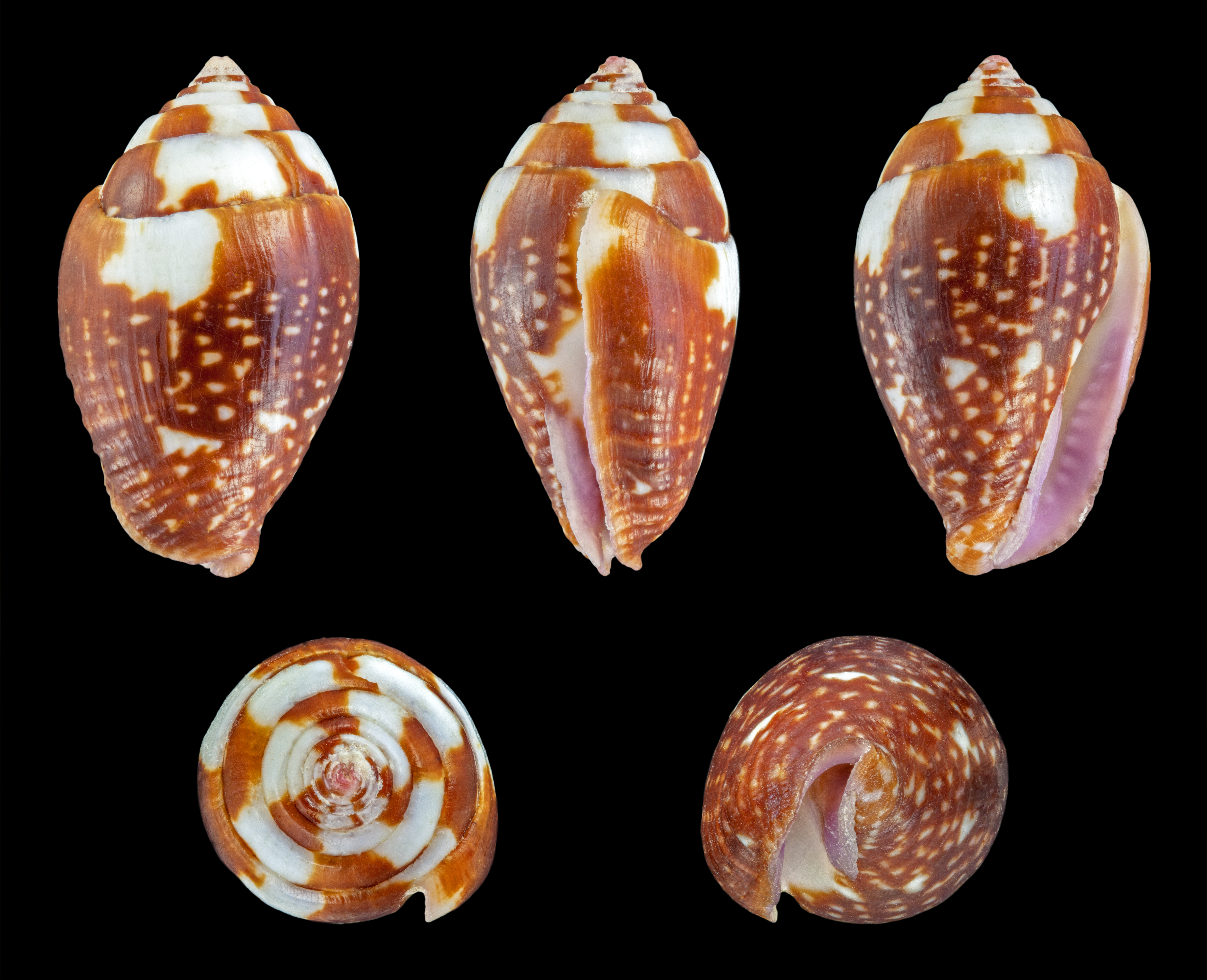 Pyrene punctata (Bruguière, 1789), Telescoped Dove Shell; Length 2.0 cm; Originating from the Philippines; Shell of own collection, therefore not geocoded.